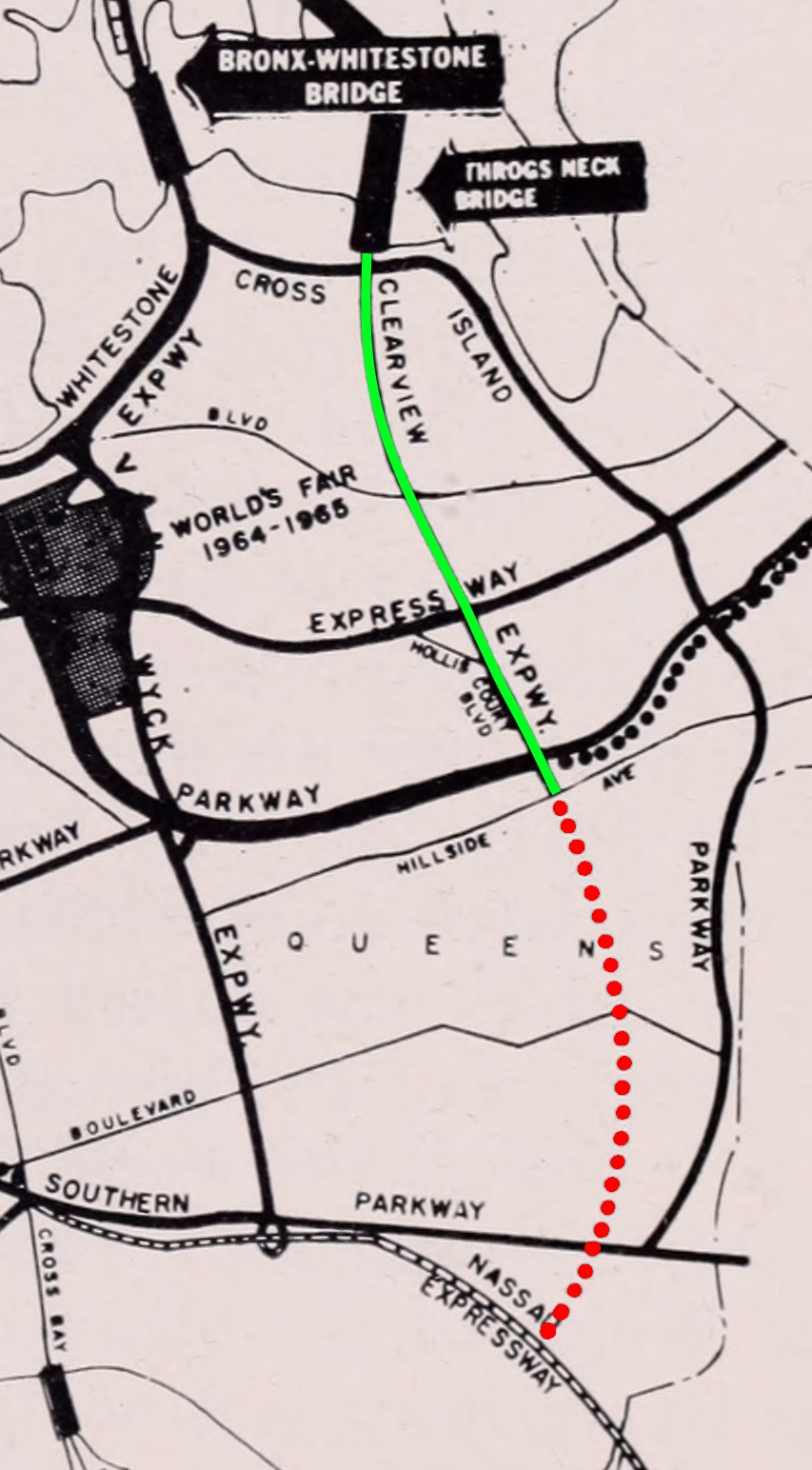 A cropped highway map from the 1964 NYC Parks Department book, "30 years of progress". Highlighted are the completed (green) and proposed (red) portions of the Clearview Expressway (I-295) in eastern Queens. The unfinished section would have extended from Hillside Avenue south to the Nassau Expressway and Rockaway Boulevard near JFK Airport.